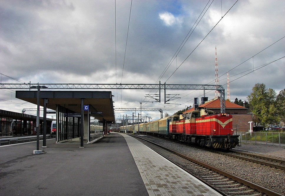 A cargo train pulled by two VR Class Dv12 diesel locomotives at Lahti railway station in Lahti, Finland, departing for Heinola.